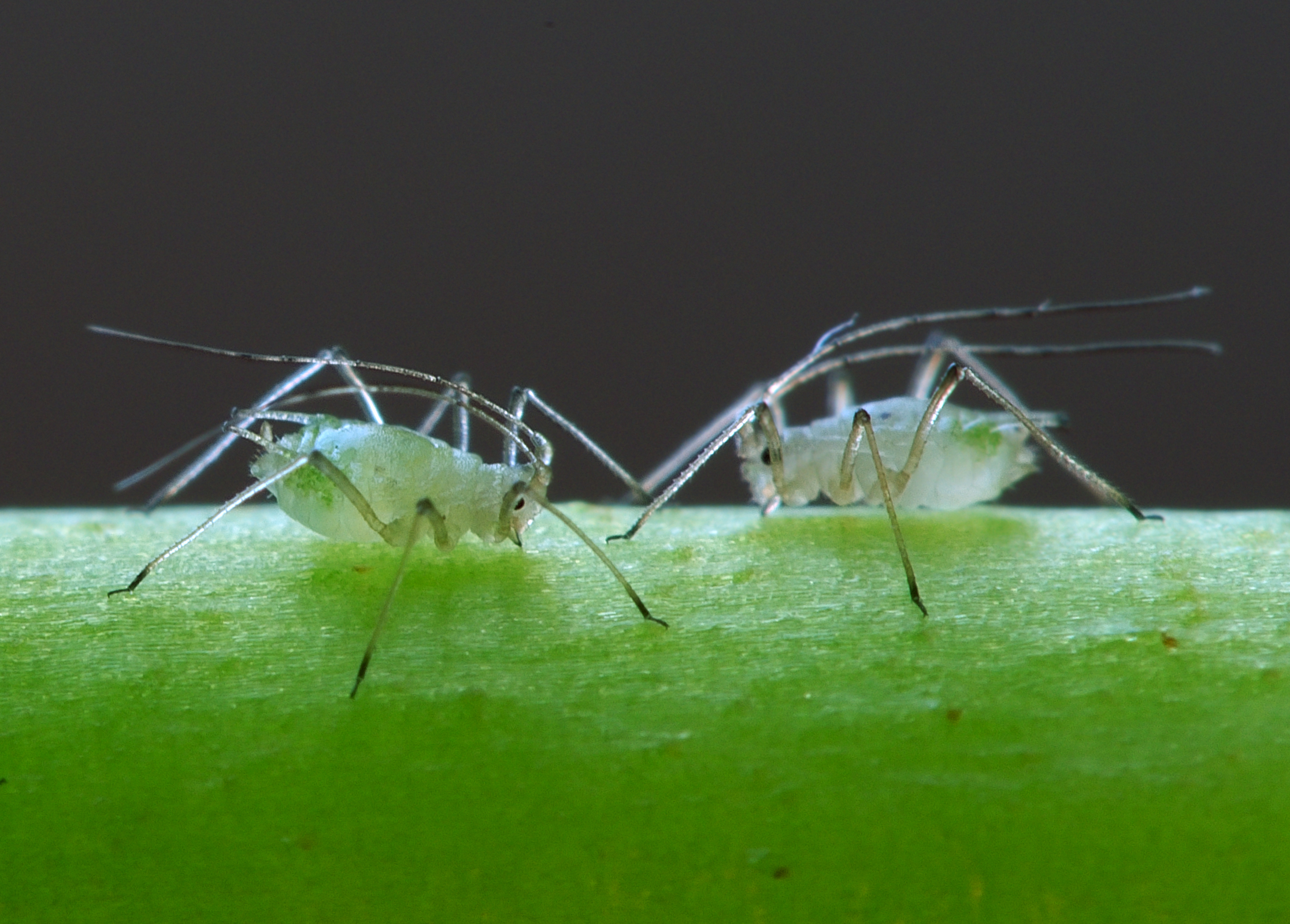 Aphidoidea in Belgium